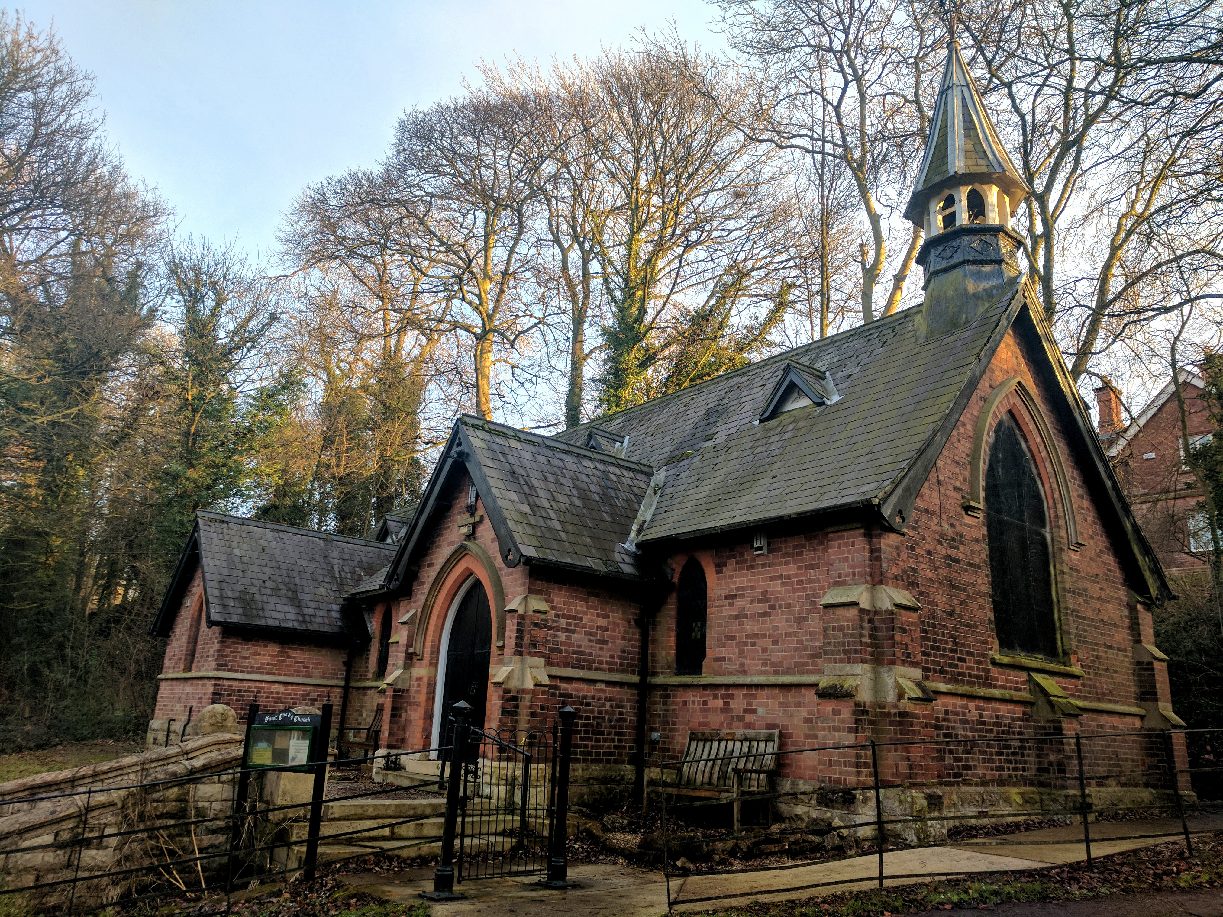 Church of St Chad, Church Lane, Pleasley Vale, Nottinghamshire Wikidata has entry Q26543749 with data related to this item.